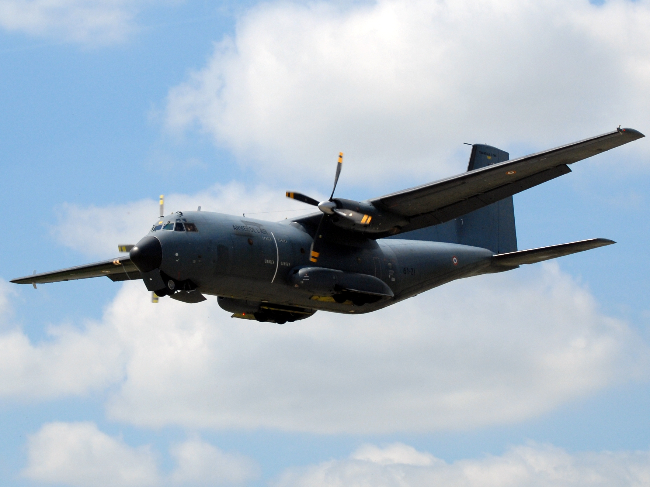 Transall C-160ManufacturerTransport AllianzModelTransall C-160TypecargoRegistration ID61-ZIOwnerFrench Air Force